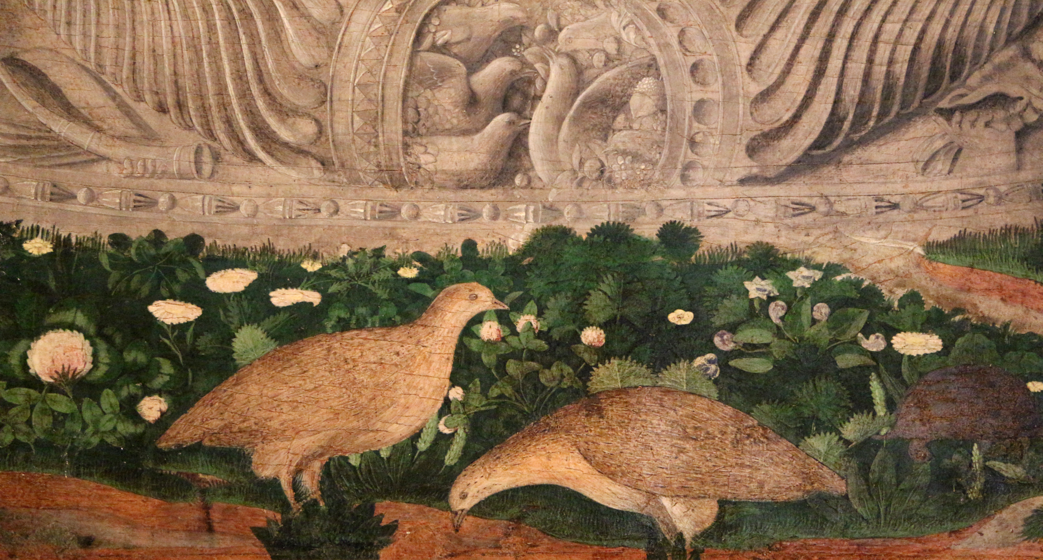 Madonna and Child Enthroned by Antonio da Negroponte